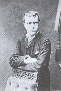 Dutch writer Lodewijk van Deyssel at the age of 17 (June 1882)